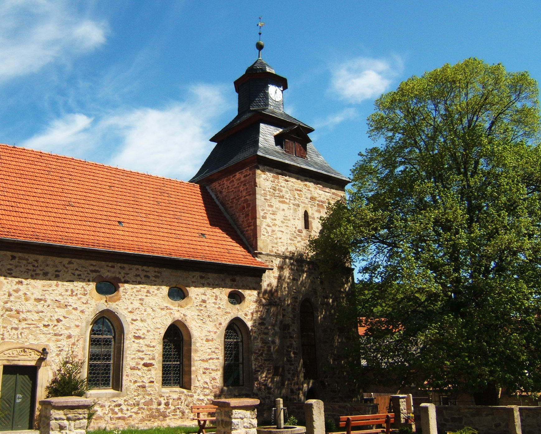 Church in Seeba (Thuringia)